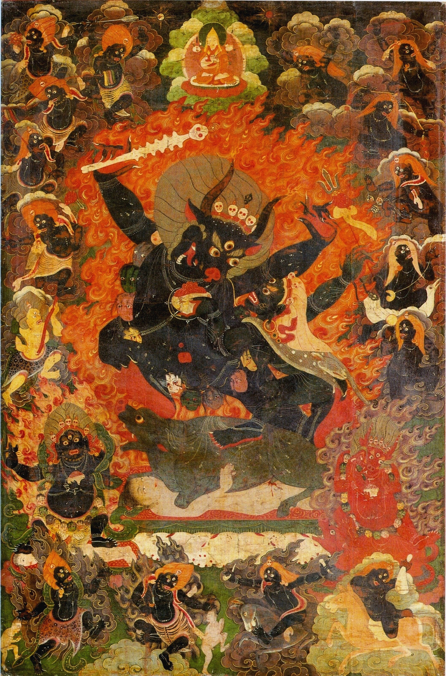 The Outer Yama Dharmaraja. Central region, Tibet. Mid 17-th century. Private Collection